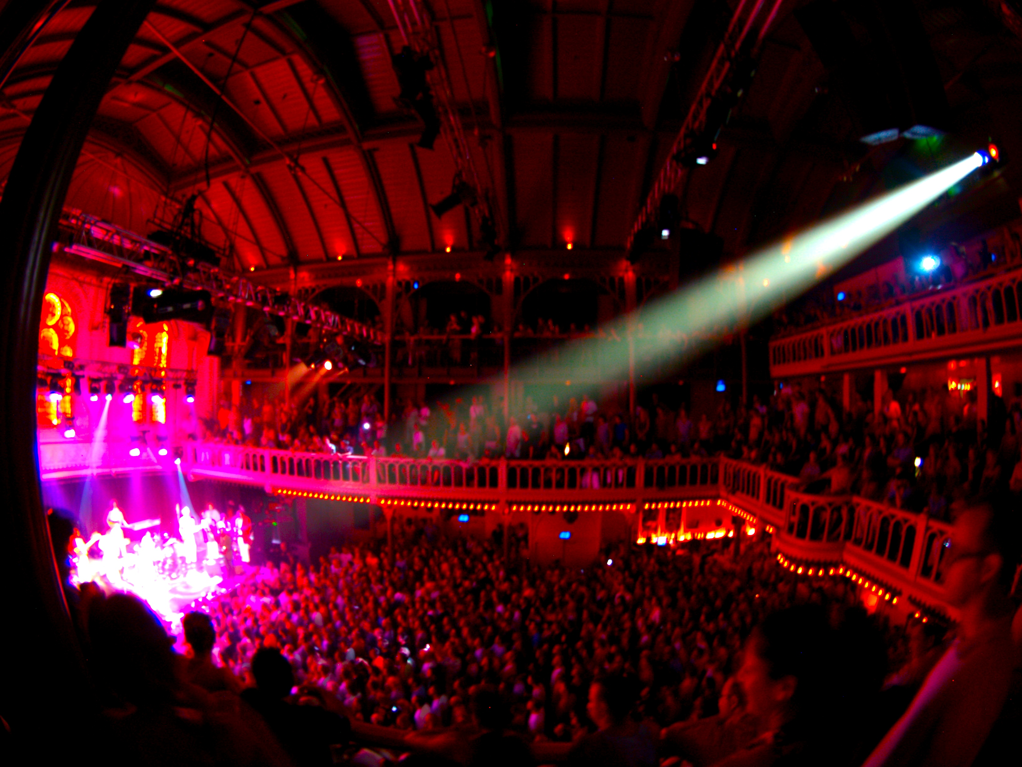 James Brown's concert at the Paradiso club. Amsterdam. July 2006.